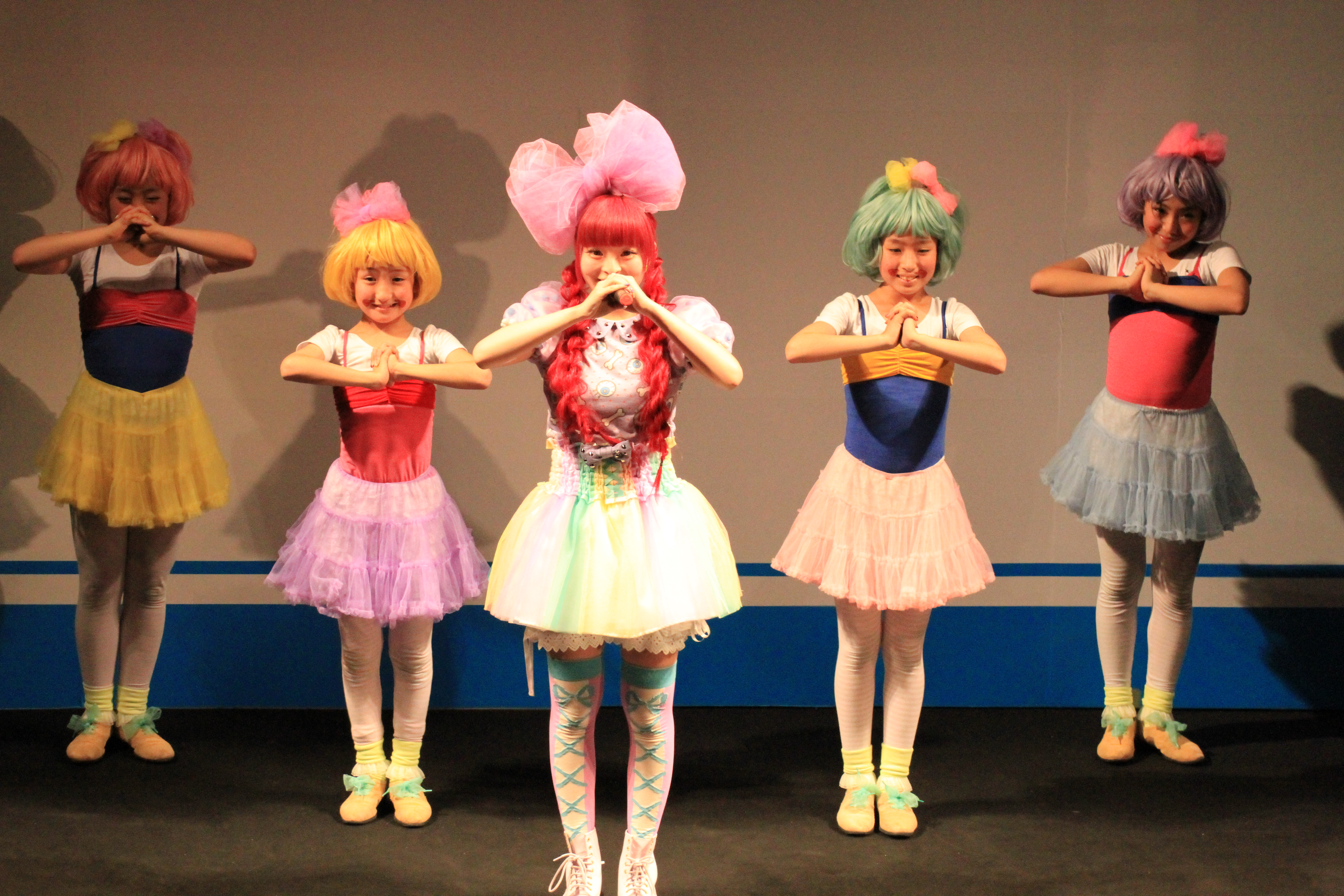 Japanese singer Kyary Pamyu Pamyu performing at the 4th Okinawa International Movie Festival, 30 March 2012. She performed her three songs, "Tsukematsukeru", "Candy Candy", and "Kyary no March".